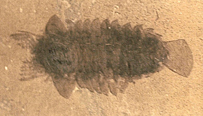 Specimen of Sanctacaris Uncata on display in the Royal Ontario Museum, Toronto.